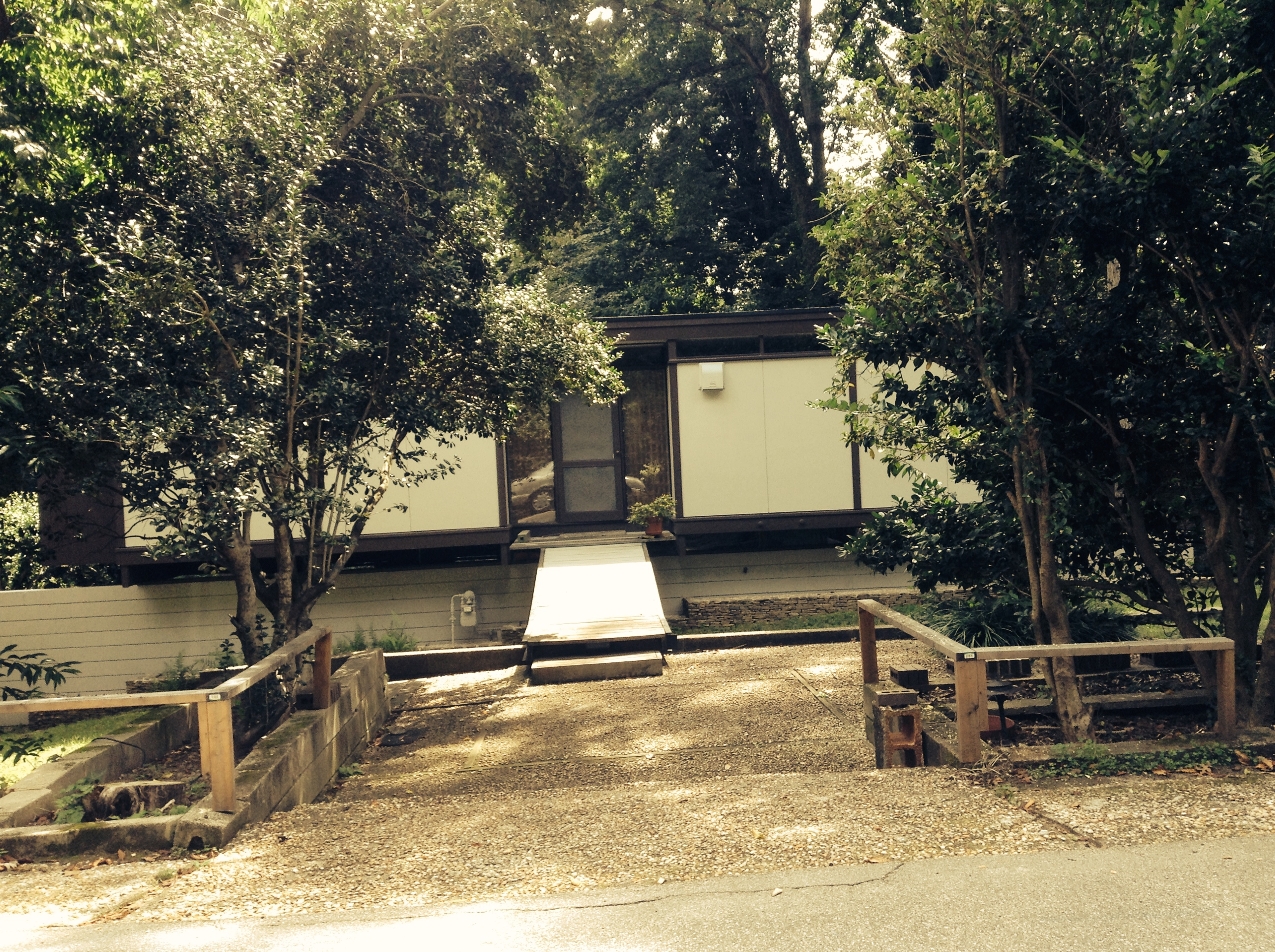 Matsumoto House, 821 Runnymeade Rd. Raleigh